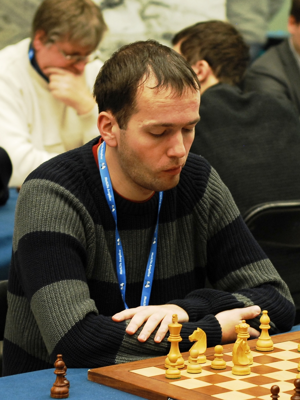 GM Arturs Neikšāns, European Rapid Chess Championship, Warsaw 2012.